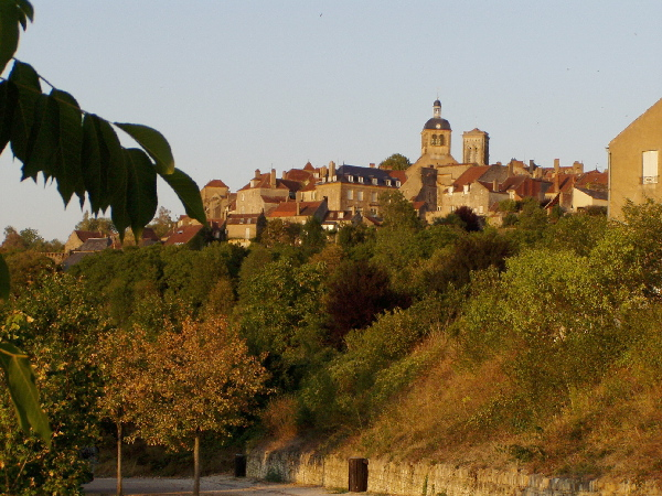 View of Vézelay.